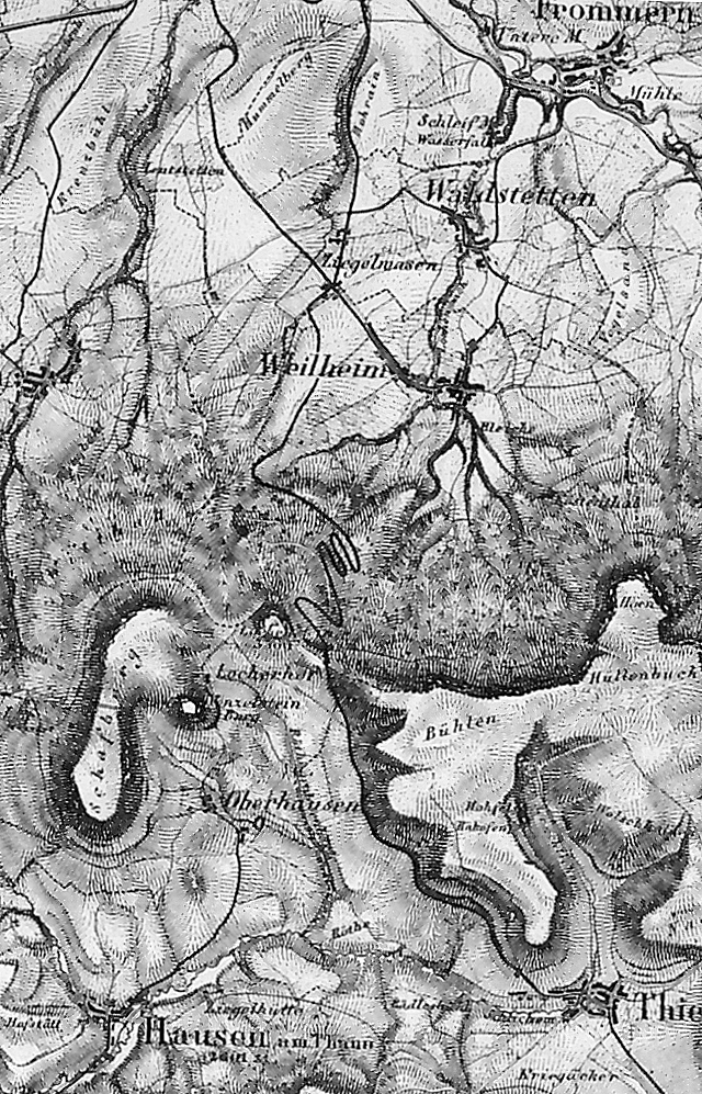 Map showing the Lochenpass near Balingen in the years of its construction